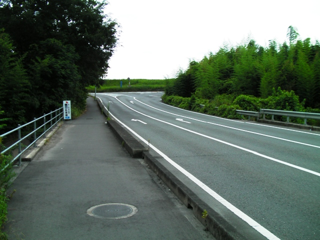 Moguri-bashi Bridge(sin-sakaigawa, Gifu, Japan